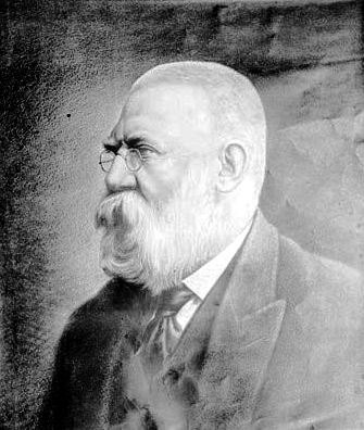 Photo of Johann Most, end of the XIXth Century.